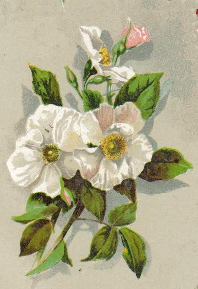 Shows a Musk Rose, from the New International Encyclopedia. Cropped with GIMP, cloned to remove the parts of other flowers in the picture.